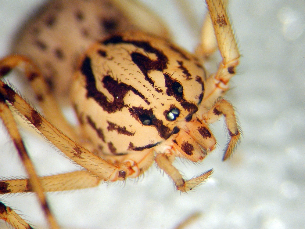 Scytodes thoracica, Nied, Frankfurt/Main, Hesse, Germany